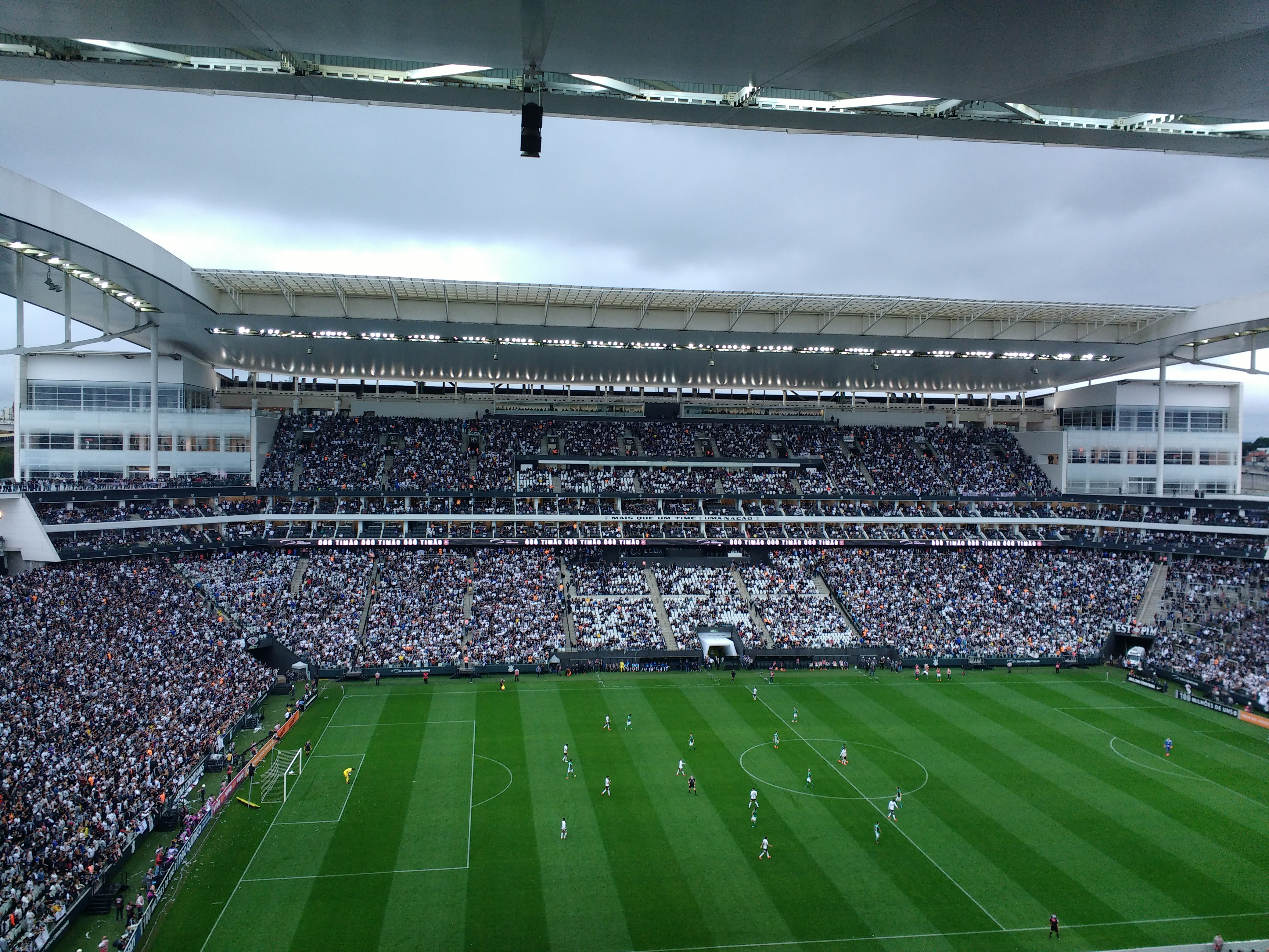 Derby Paulista between Corinthians and Palmeiras at the Corinthians Arena, for the Brasileirão 2017